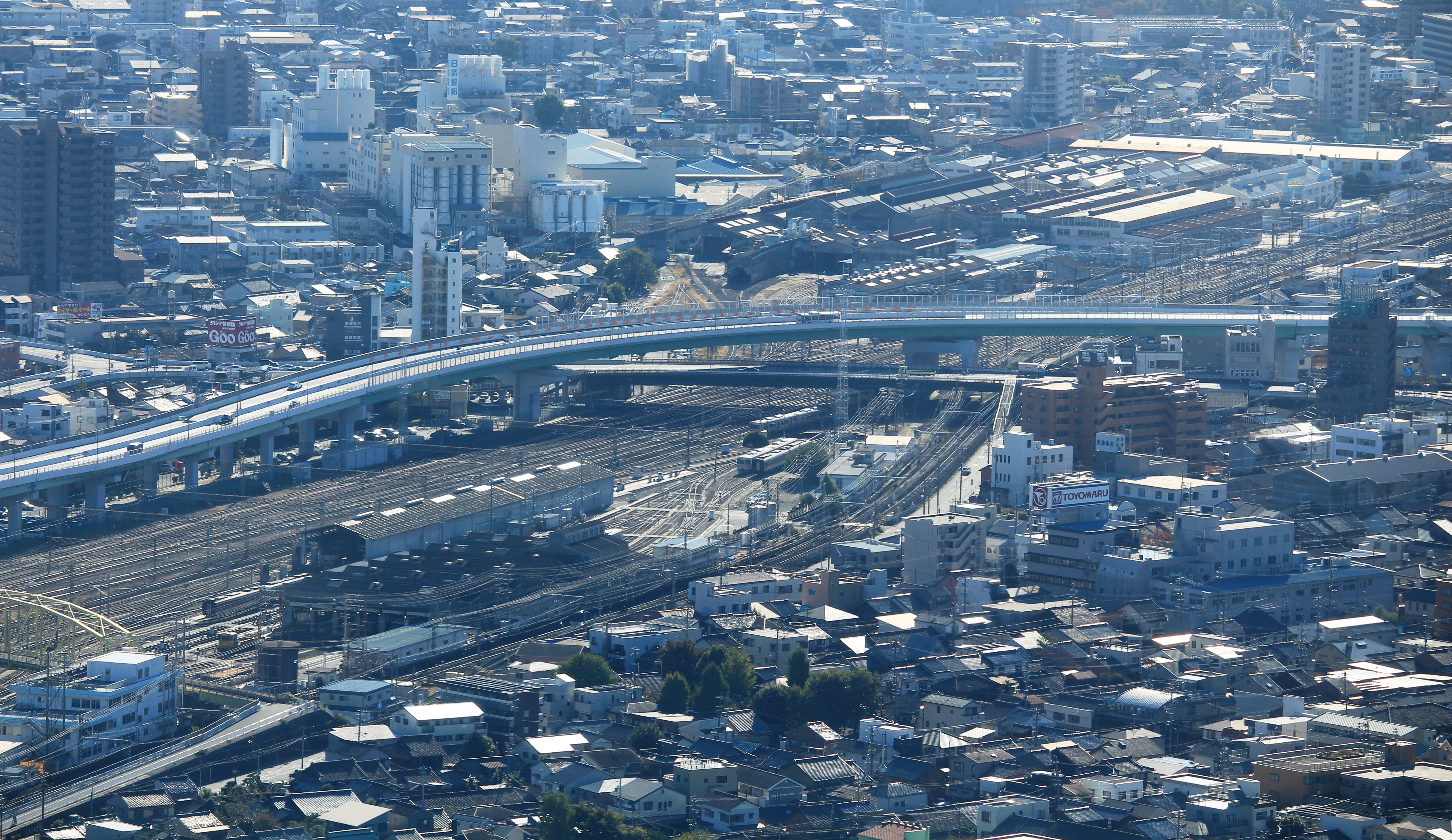 Kogane-kosenkyō Bridge seen from Midland Square in Nagoya, Aichi prefecture, Japan.